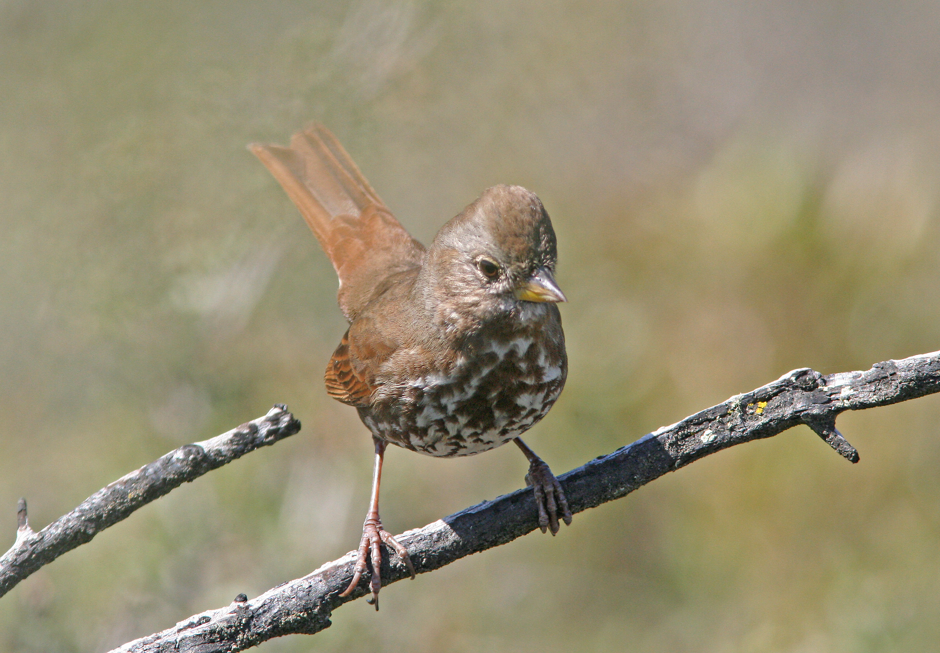 Slate-colored Fox Sparrow. Looks a lot like the subspecies Passerella schistacea altivagens but with a less streaked back and no wing bar. Cerro Alto, San Luis Obispo, California.